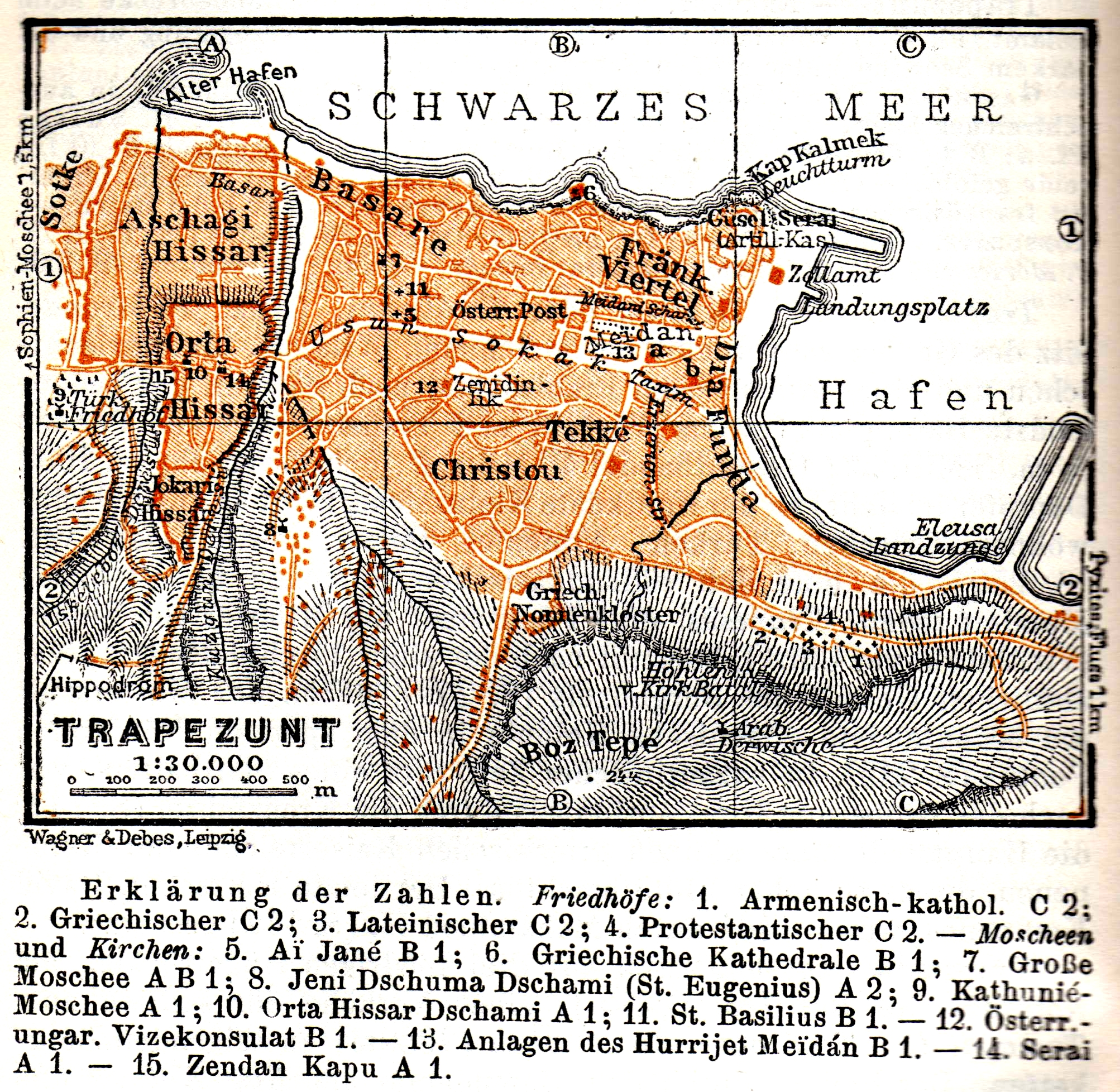 Street plan of Trebizond